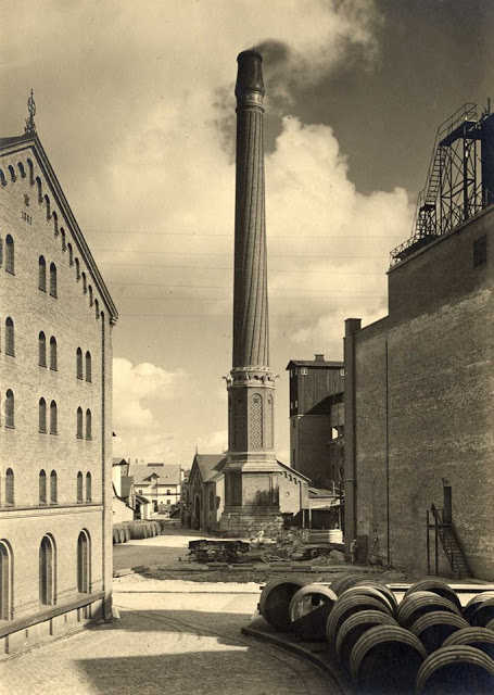 The winding chimney (Den Snoede Skorsten) at the Carlsberg Brewery site in Copenhagen, Denmark